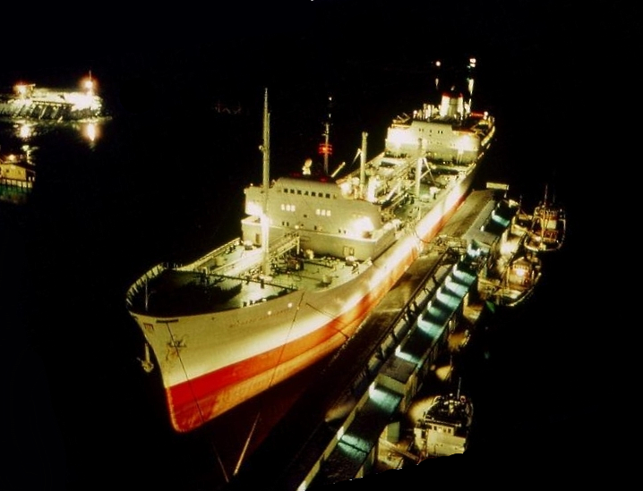 The german Tanker Richard Kaselowsky of the Rudolf A. Oetker Company in the norwegian port of Brevik in 1960